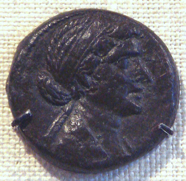 Coin of Cleopatra VII